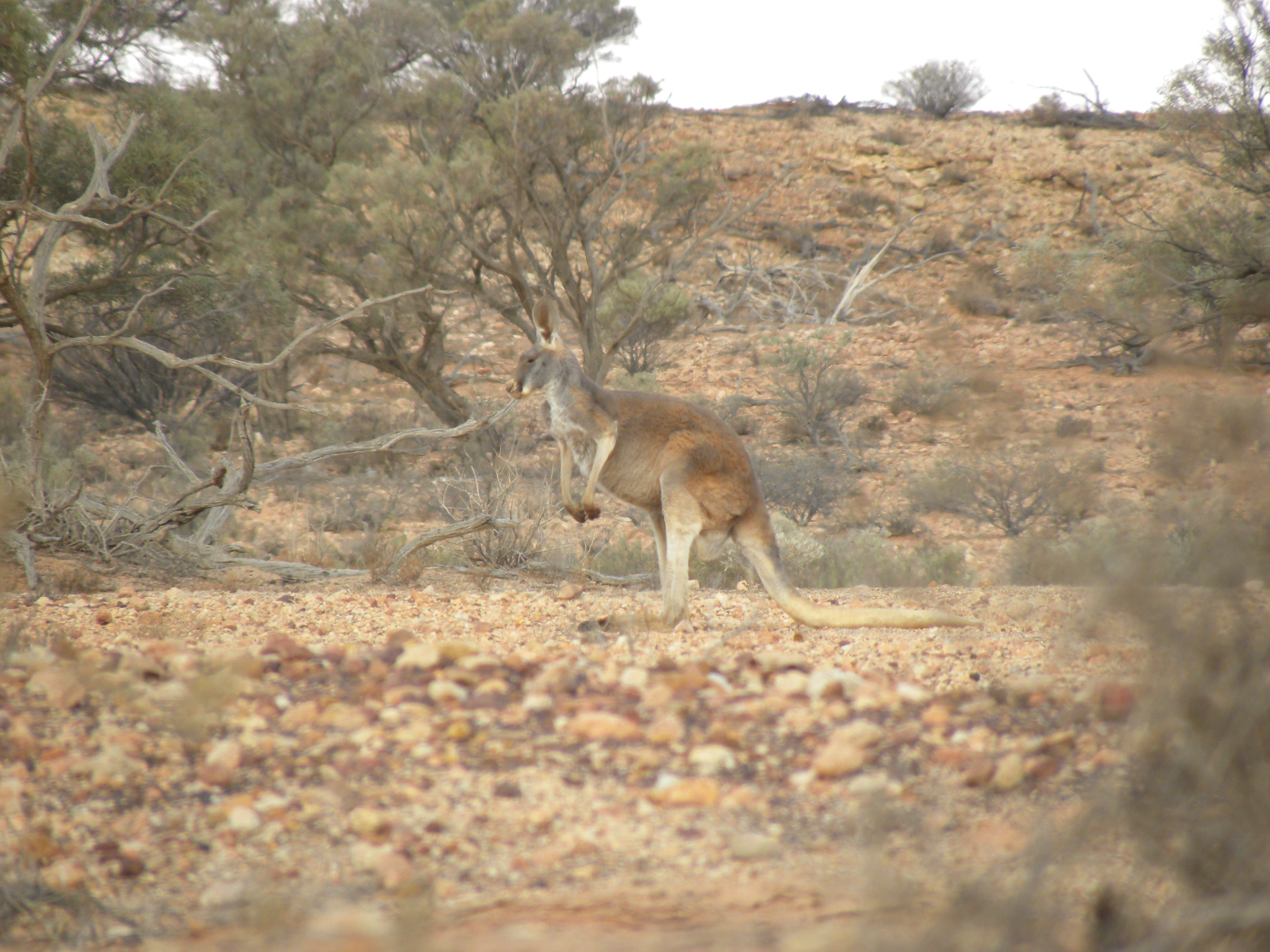 The species in its arid-zone environment.